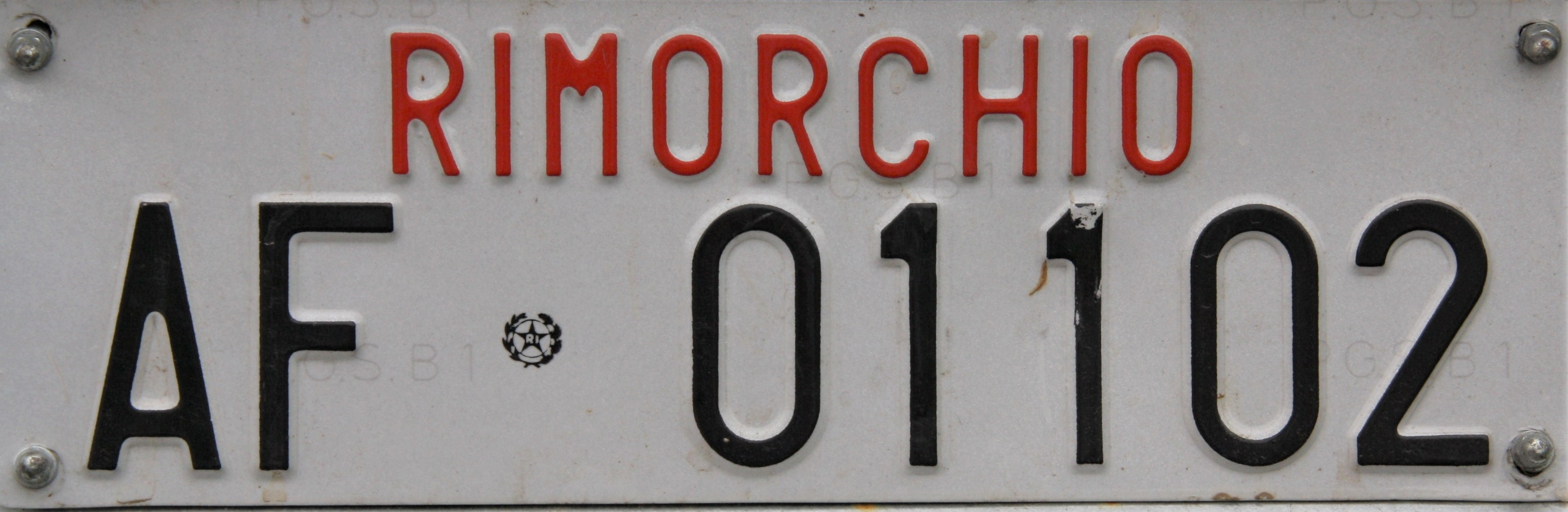 Italy, Vehicle registration plates of Italy. The plates for the trailers.